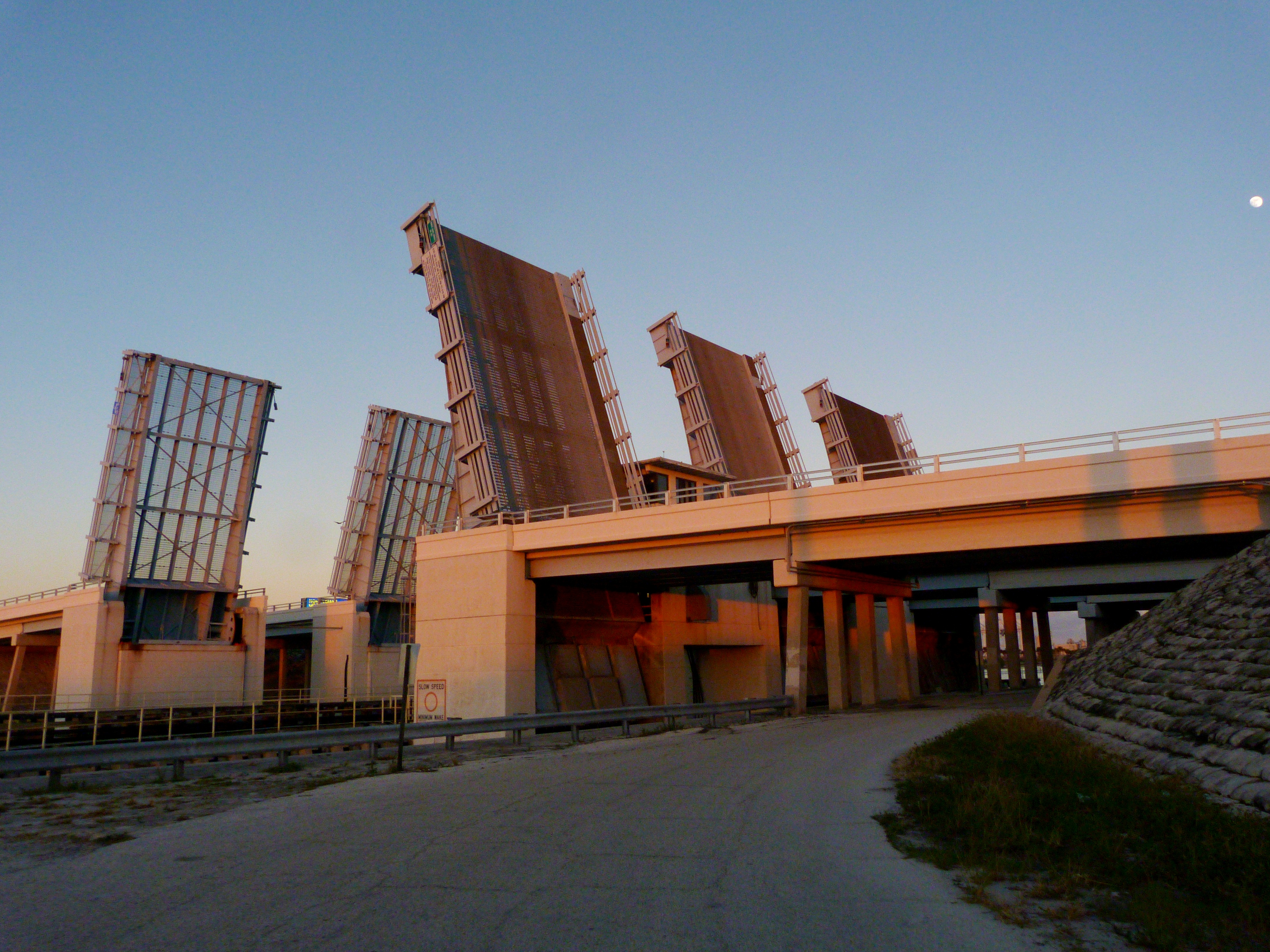 The Port Canaveral Barge Canal Bridge, on Florida highway SR 401, consists of three adjacent bridges, all with double-leaf bascule-type drawbridge spans.